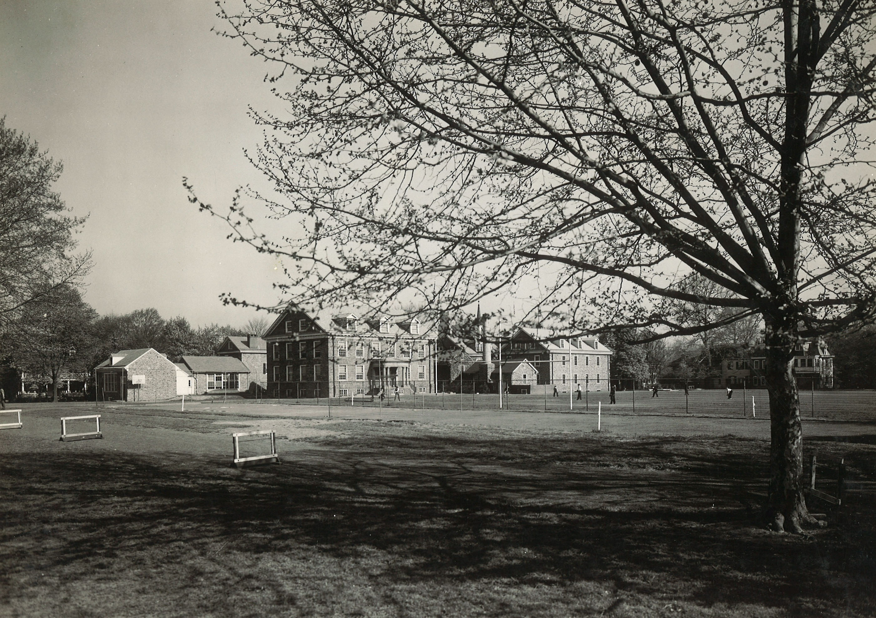 GA old fields